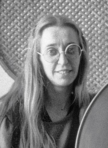 Moniek Darge (cropped pic) Logos Foundation - Genth Belgium (1983).